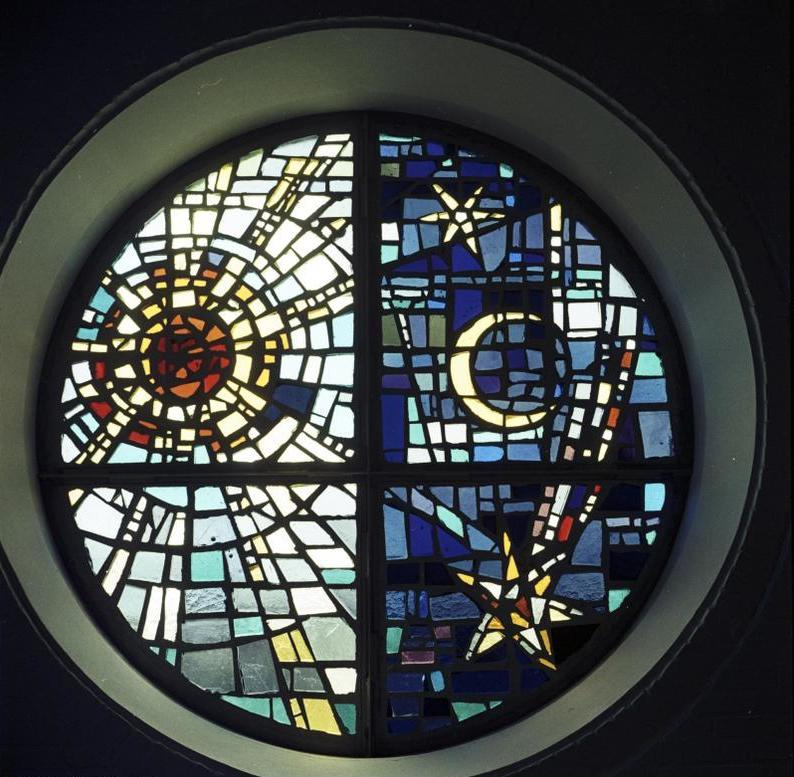 Kiel: Evangelische Kirche in Kiel-Schulensee Information added by Wikimedia users.one of seven Creation windows by Siegfried Assmann